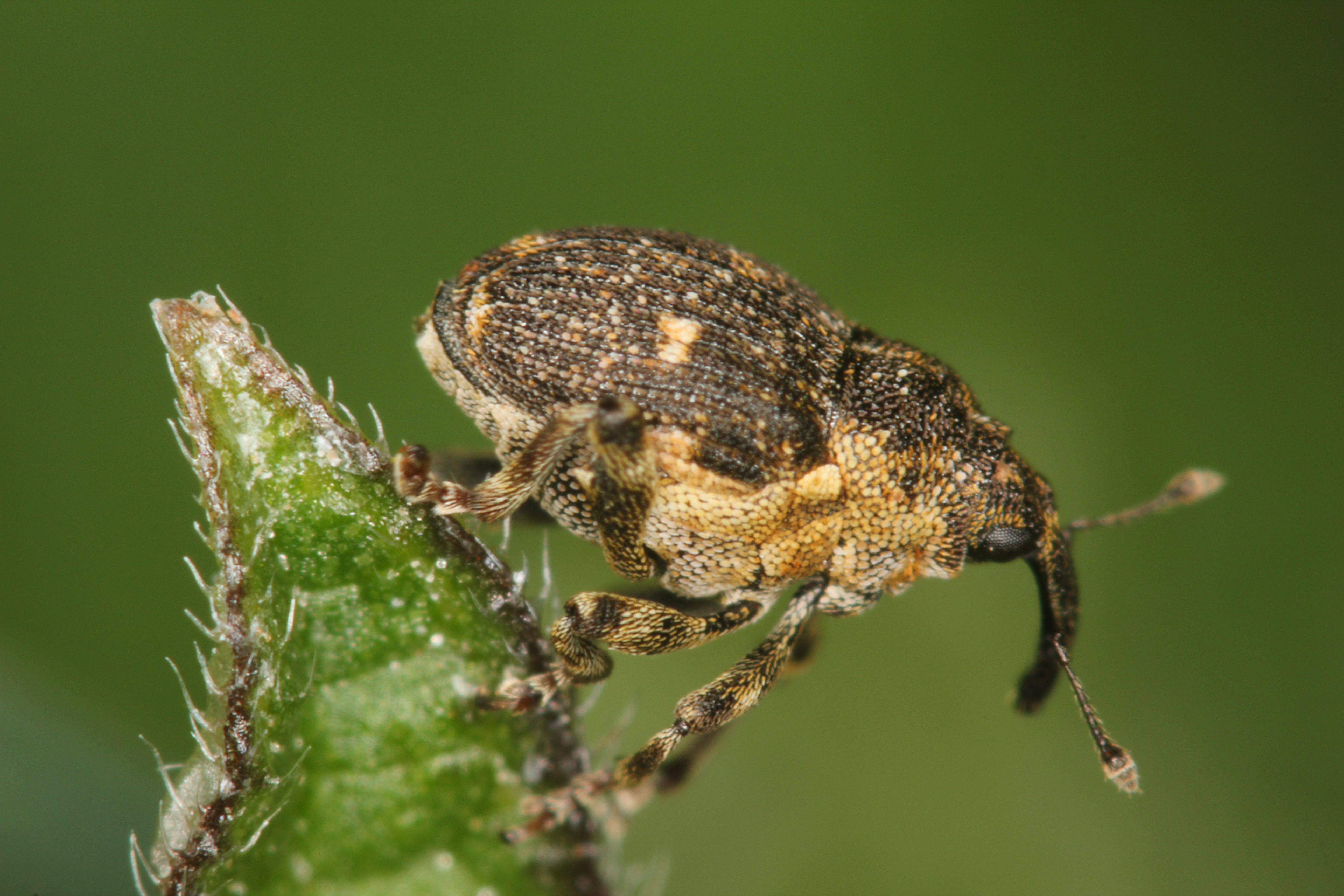 Possibly Nedyus quadrimaculatus from England.